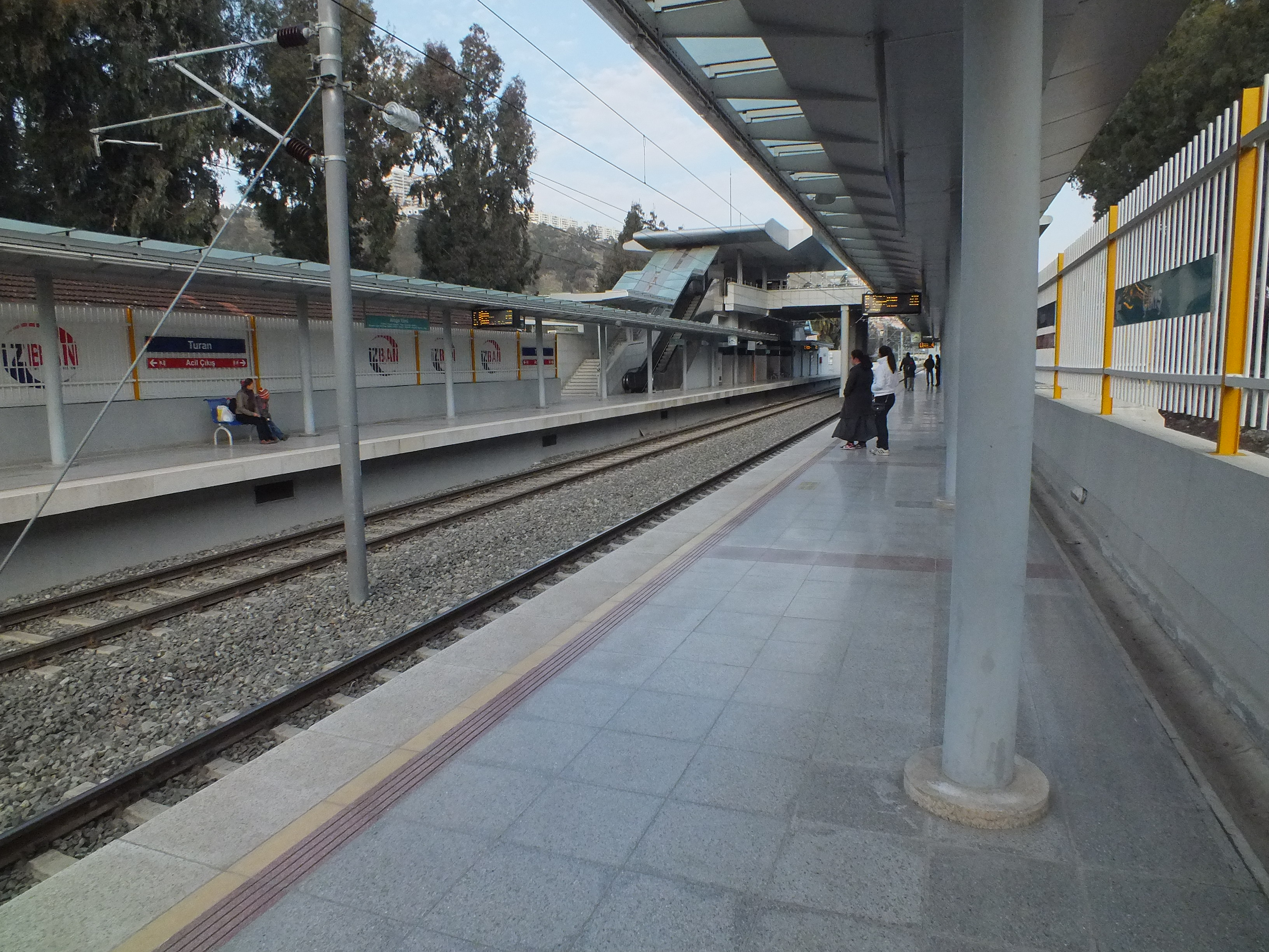 Turan railway station.